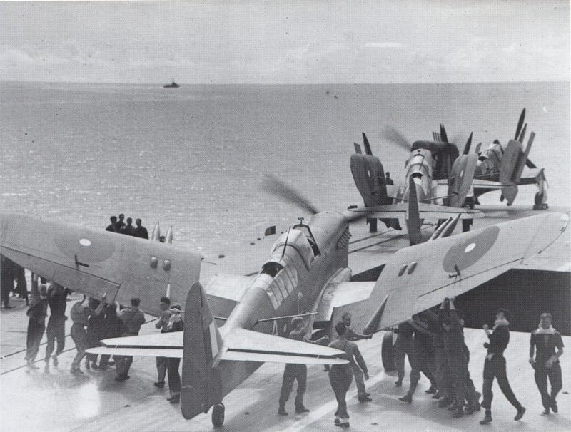 Fairey Fireflies aboard HMS Indefatigable after attacking Pangkalan Brandan, Sumatra.